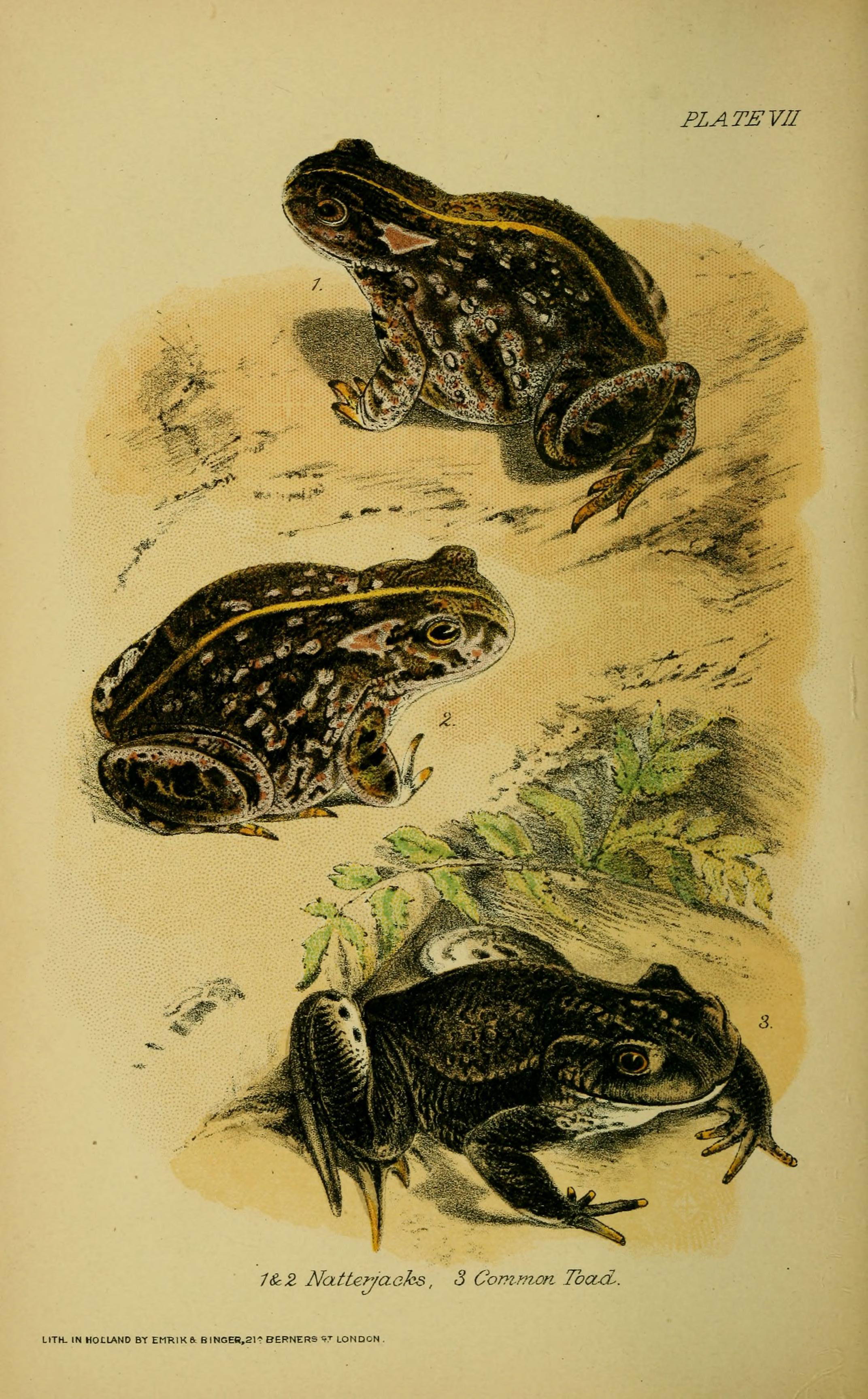 PLATE VII 7&2 Natterjacks, 3 Common ToouJL. LITH. IN H01LAND BY EMKlKft B INGER.21? BERNZRS W I